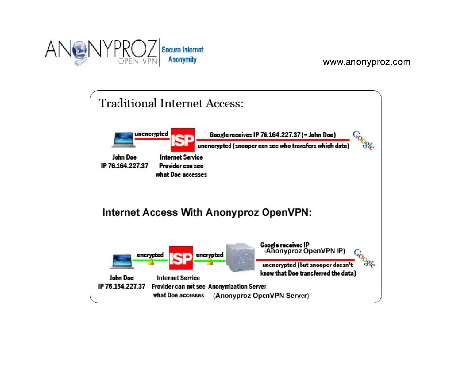 Anonyproz OpenVPN obscures your IP address by sending your traffic through an encrypted tunnel using OpenVPN Clients and Servers. The 30-second Client Setup and excellent performance of OpenVPN makes an easy choice for OpenVpn based VPN.